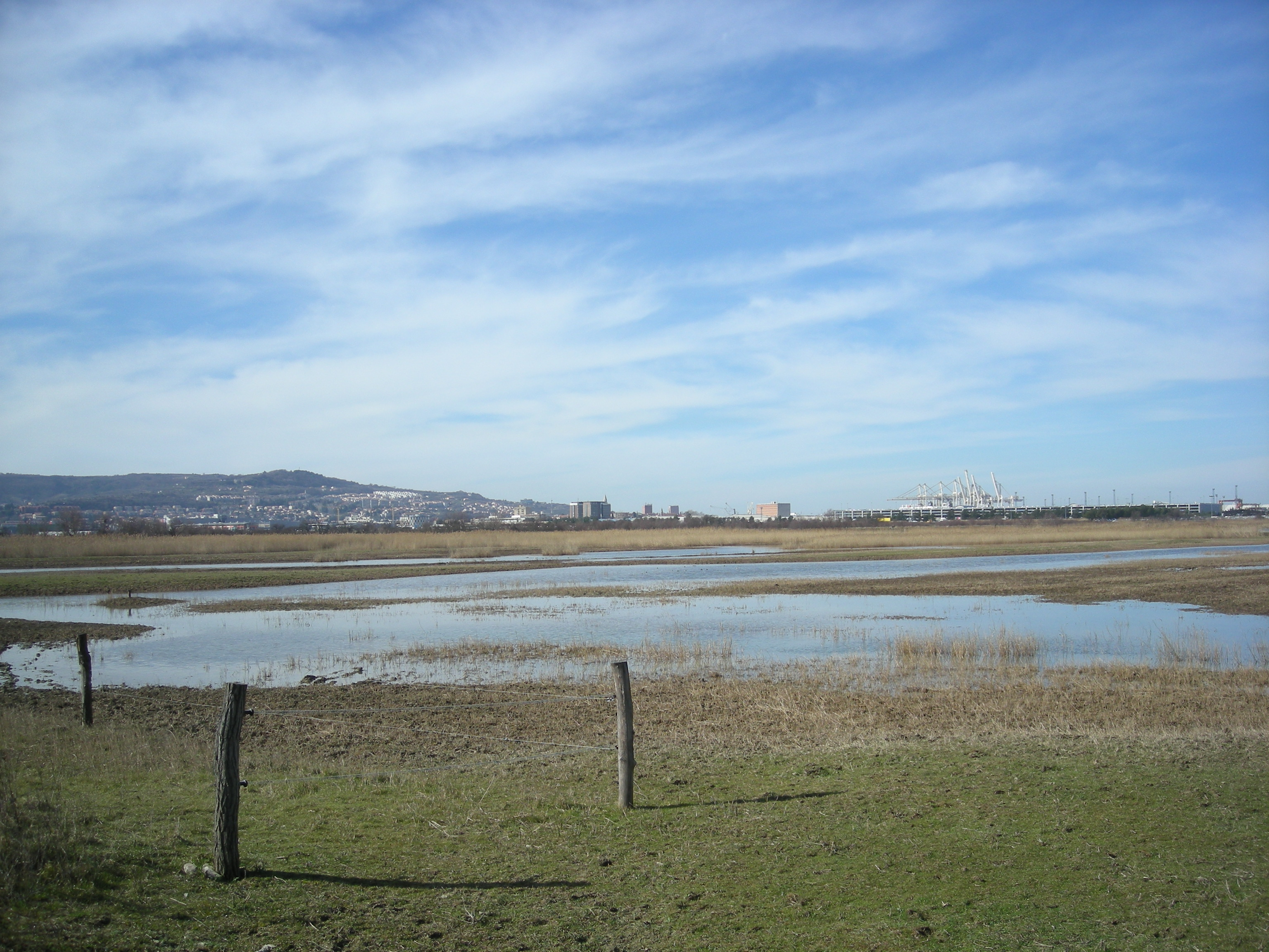 Škocjanski zatok, nature reserve near Koper, Slovenia.